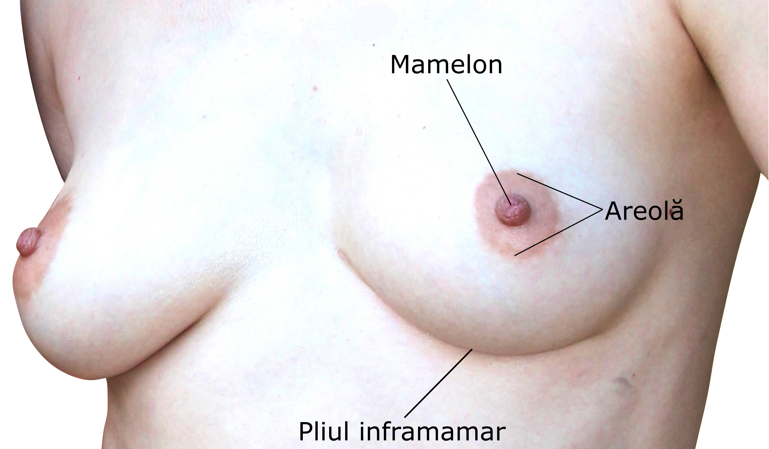 Morphology of human breasts with the areola, nipple, and inframammary fold